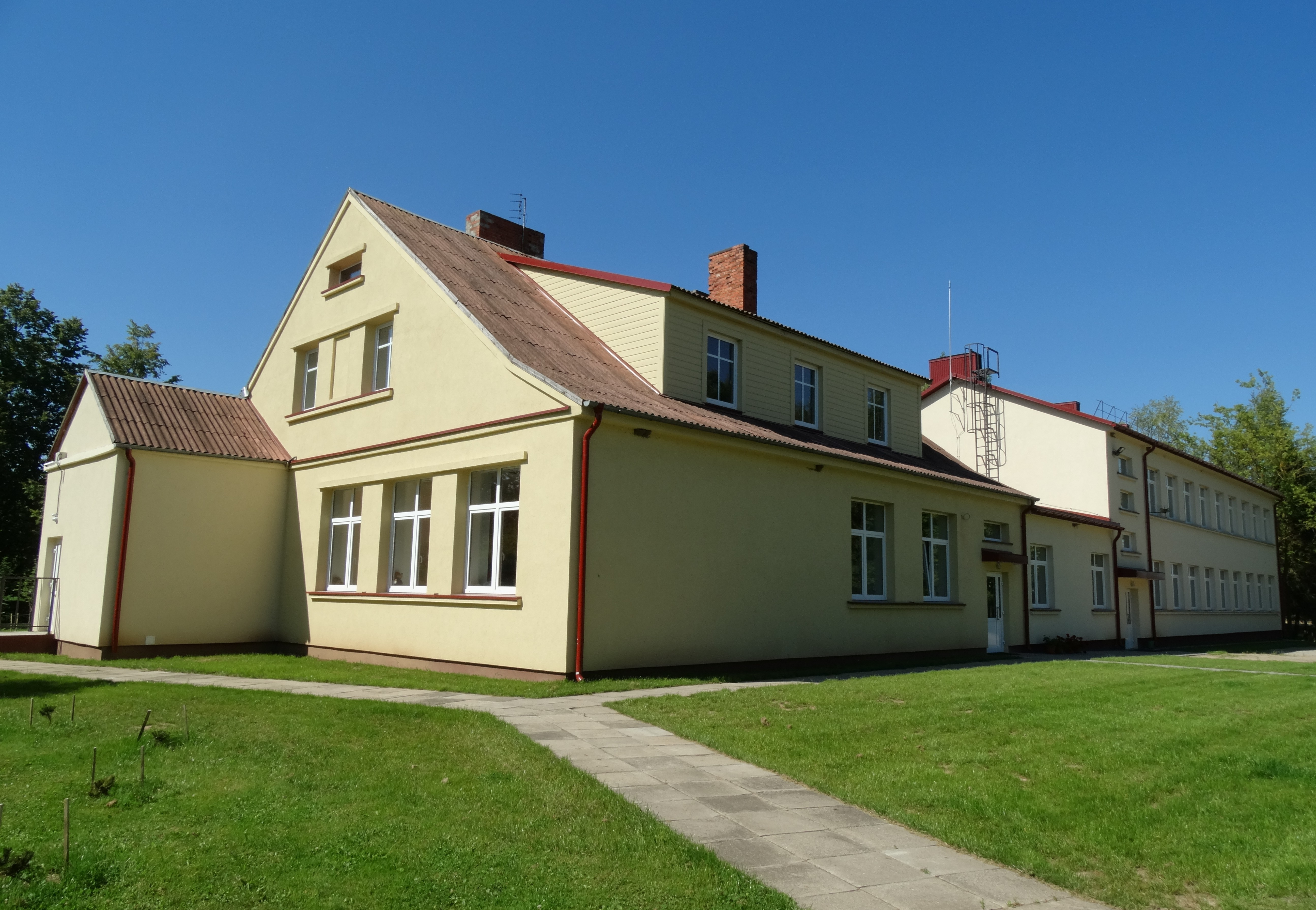 Kalviai Basic School in Plikiškiai, Joniškis District, Lithuania